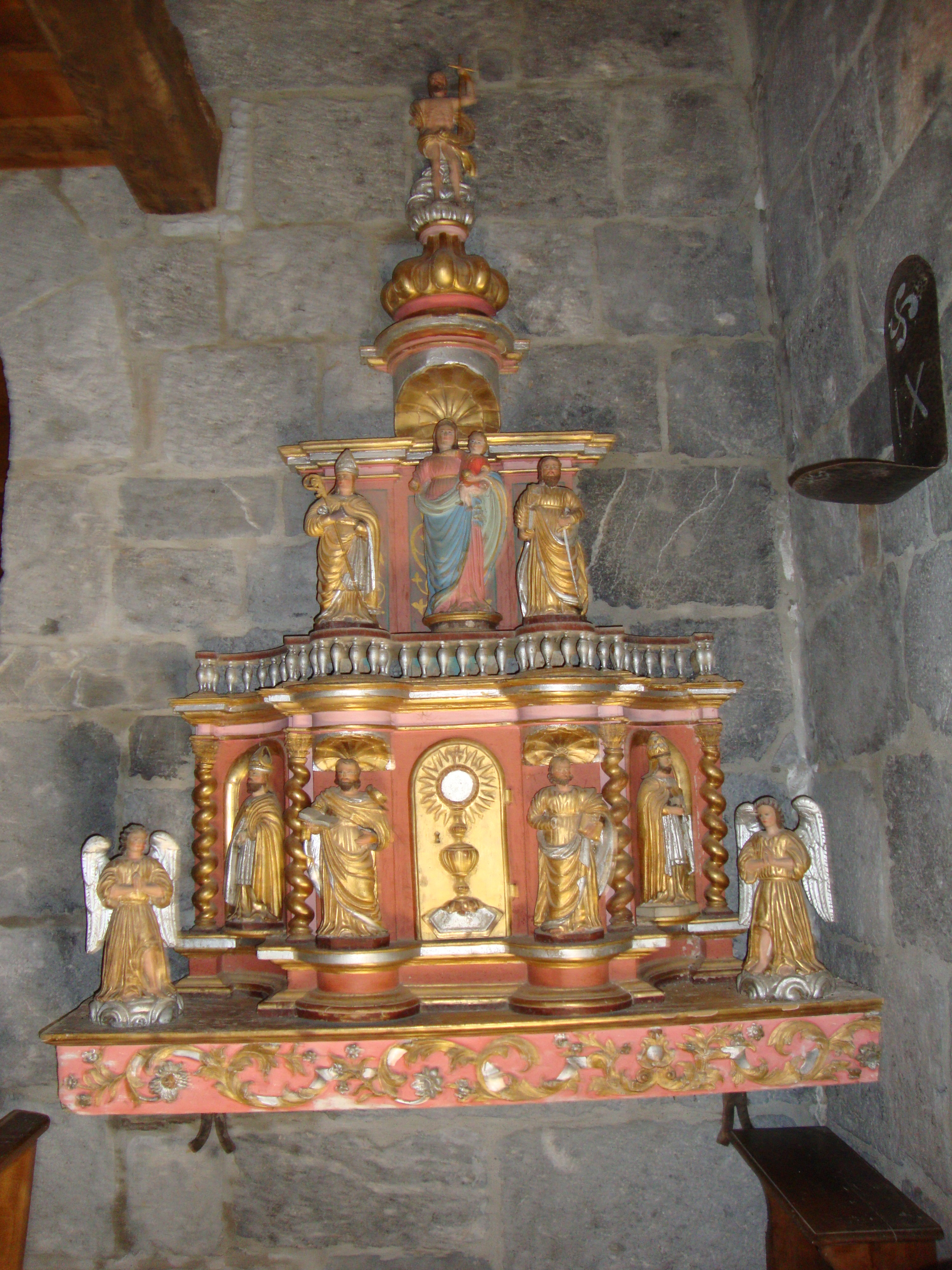 Sunhar (Lichans-Sunhar, Pyr-Atl, Fr) altar